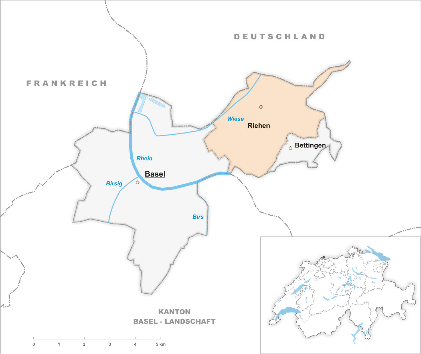 Municipality of Riehen